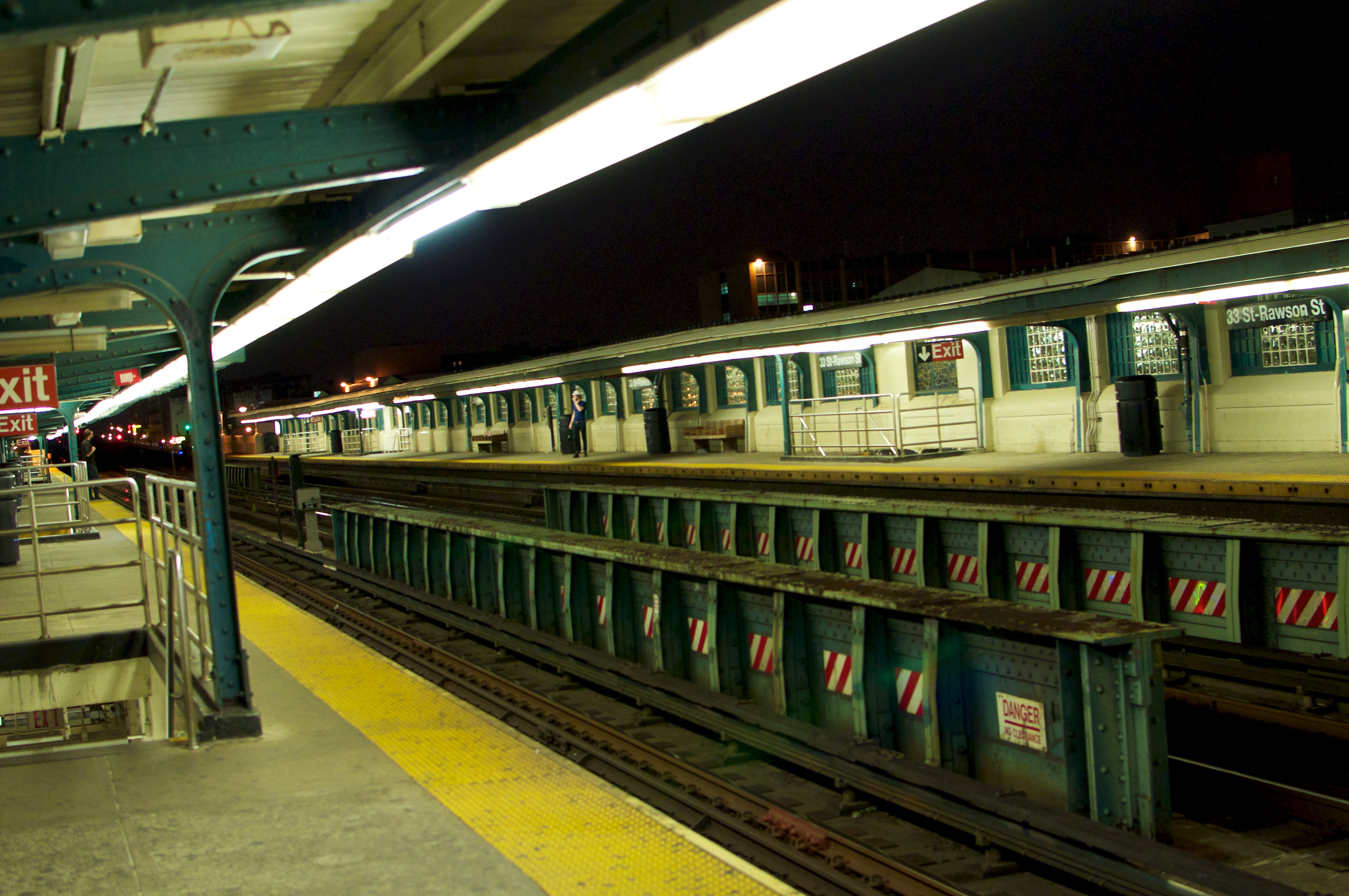 33rd St-Rawson St Station - 7 Train